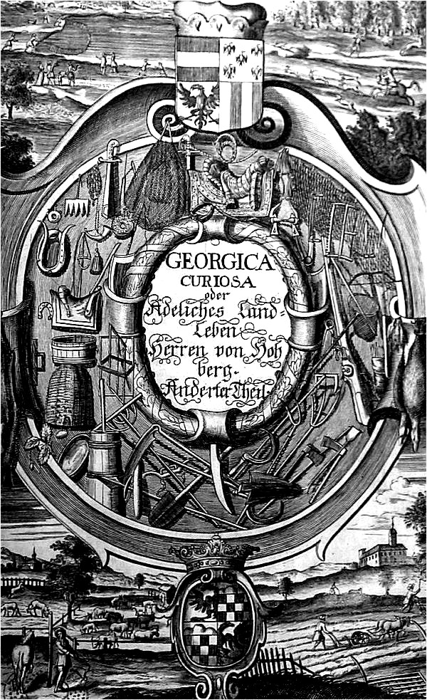 Wolfgang Helmhardt von Hohberg: "Georgica curiosa", instructions for agriculture and housekeeping, part 2. Title-page. Copper engraving.